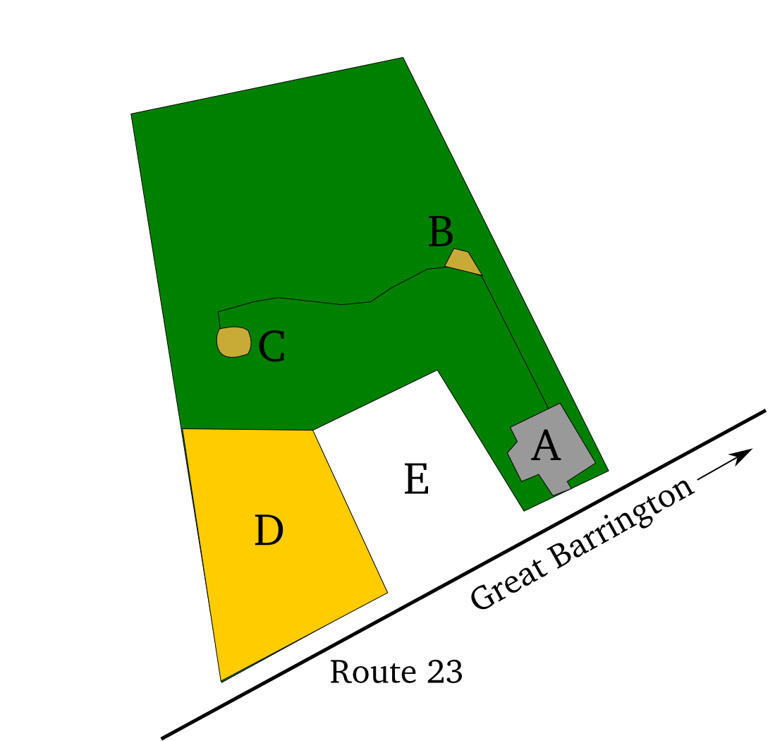 Map of the W.E.B. Du Bois Boyhood Homesite (Great Barrington, MA), circa 2009. Item labels: A: Parking lot B: Interpretive sign C: 1969 commemorative boulder D: Homesite area E: Private property